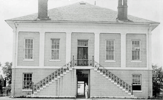 Crawford County Courthouse, Knoxville (Crawford County, Georgia) Cropped